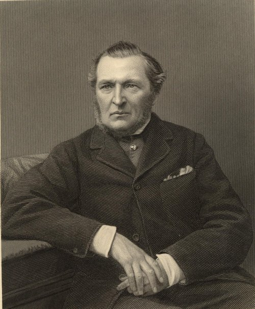 Portrait of Hugh Cairns (d. 1885) Image cropped, rotated, and scaled using The GIMP.